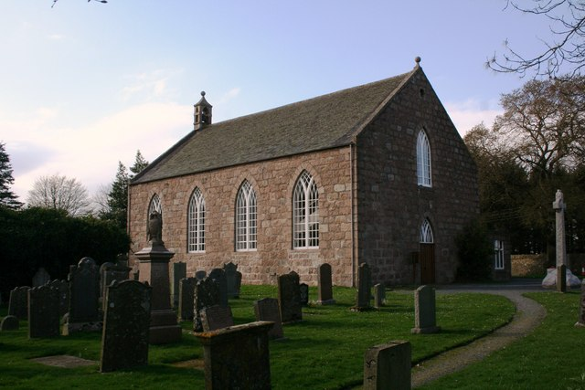 Chapel o Garioch Church The parish church of the combined parish of Blairdaff and Garioch.